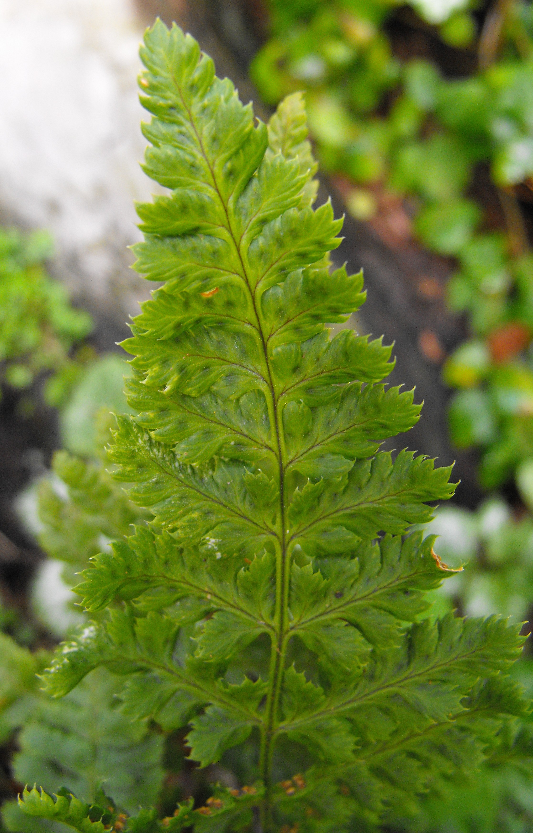 Dryopteris dilatata in the Botanical Bldg., Balboa Park, San Diego, California, USA.